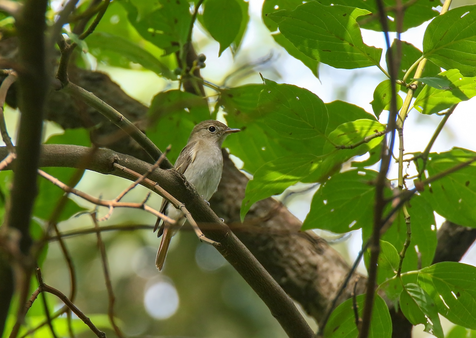 Rusty-tailed Flycatcher (Muscicapa ruficauda) captured at Neelan Khas, Haripur, KPK, Pakistan with Canon EOS 7D Mark II